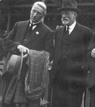 An image of Frank Gibson, Member of the Western Australian Legislative Assembly, and William Watson, Federal Member for Fremantle, taken in 1923.